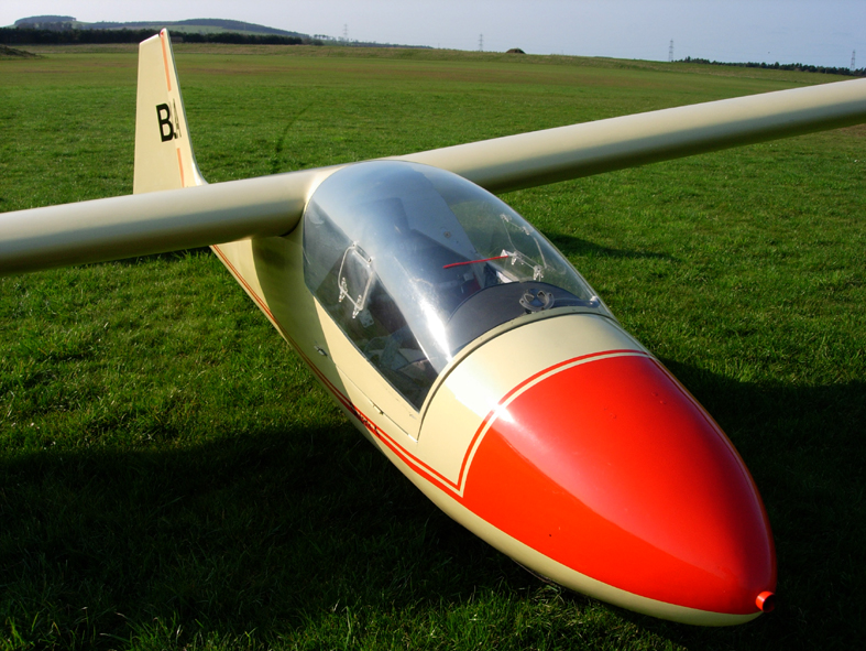 Slingsby Skylark Model T50 - commonly known as 'The Skylark IV'. Manufactured in 1962, Skylark IV BLA (Bravo Lima Alpha) was first owned by Professor Frank Irving - aeronautical engineer from Imperial College London. This Skylark is currently resident at Borders Gliding Club, Northumberland, UK. Wingspan is 18.2 metres. Skylark IVs have achieved heights in excess of 30,000 ft and flights of over 300 miles.